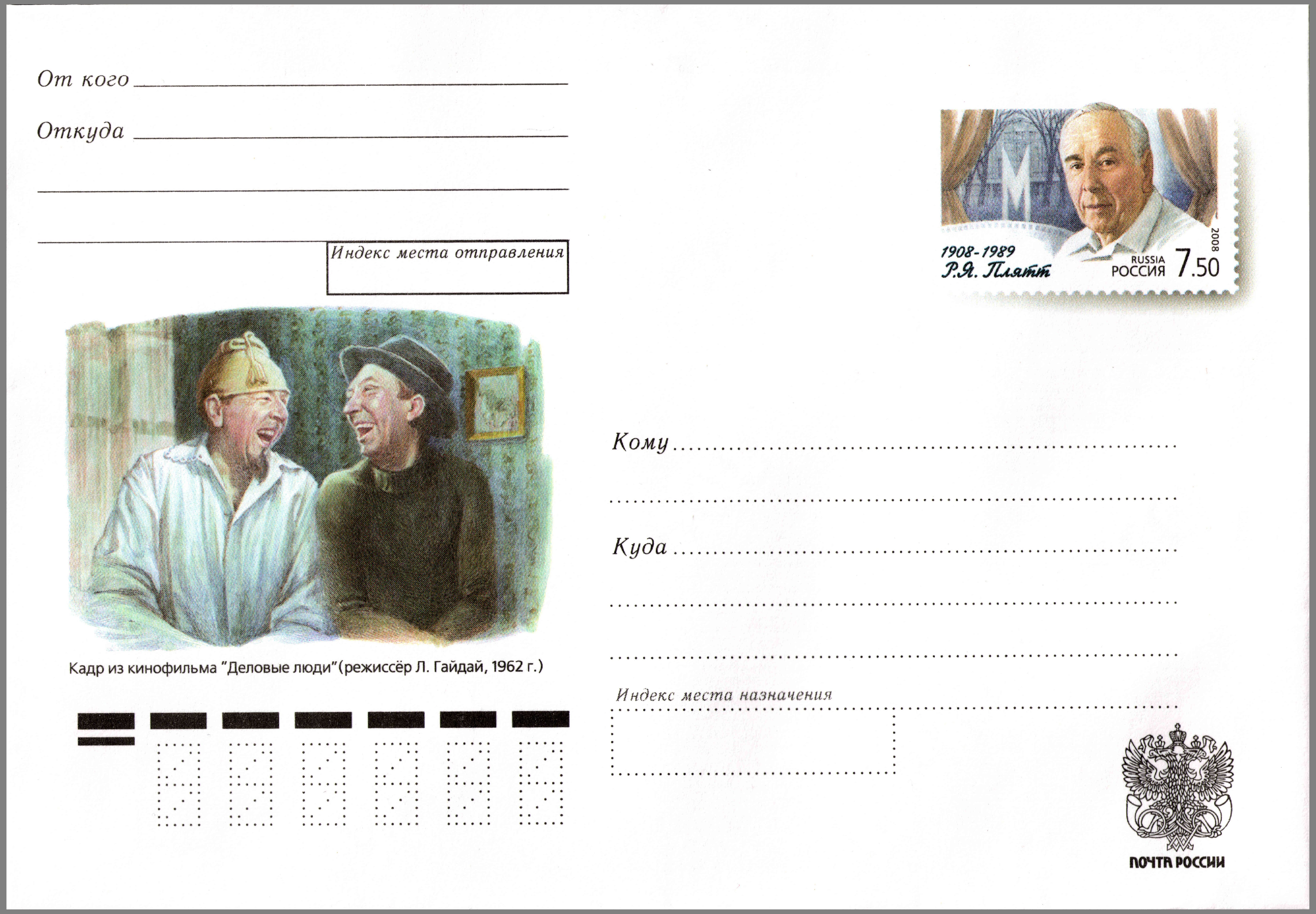 100th birth anniversary of the Soviet actor Rostislav Plyatt (1908—1989). The ilustrated postal stationery envelope with the commemorative stamp, Russia, 2008. Catalogue of PTC Marka # 181-кор08. The imprinted commemorative stamp (7.50 rubles): the portrait of Rostislav Plyatt. The illustration: the scene from the Soviet film Strictly Business (1962), the segment Makes the Whole World Kin (the adaptation of O. Henry’s short story of the same name); Rostislav Plyatt as the citizen (on the left) and Yuri Nikulin as the burglar.